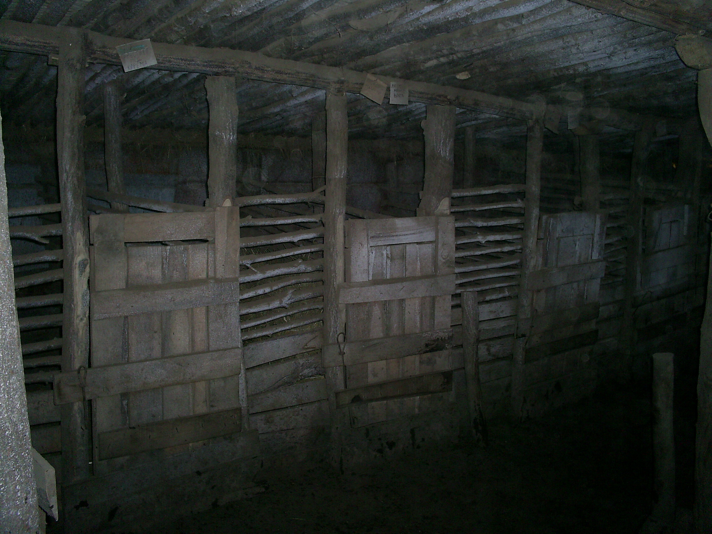 Swine house